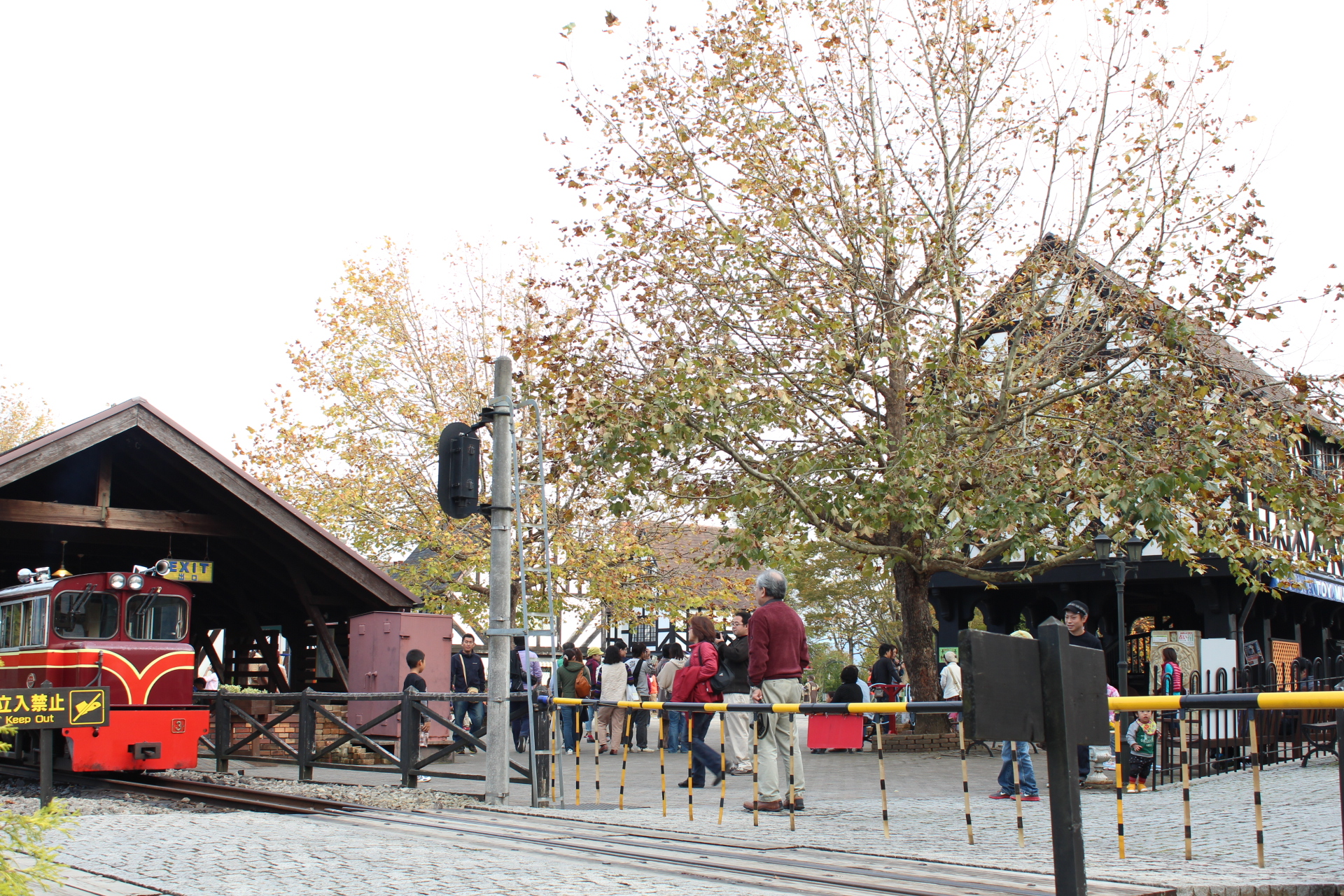 Shuzenji Nijinosato's British Village in Izu, Shizuoka Prefecture, Japan